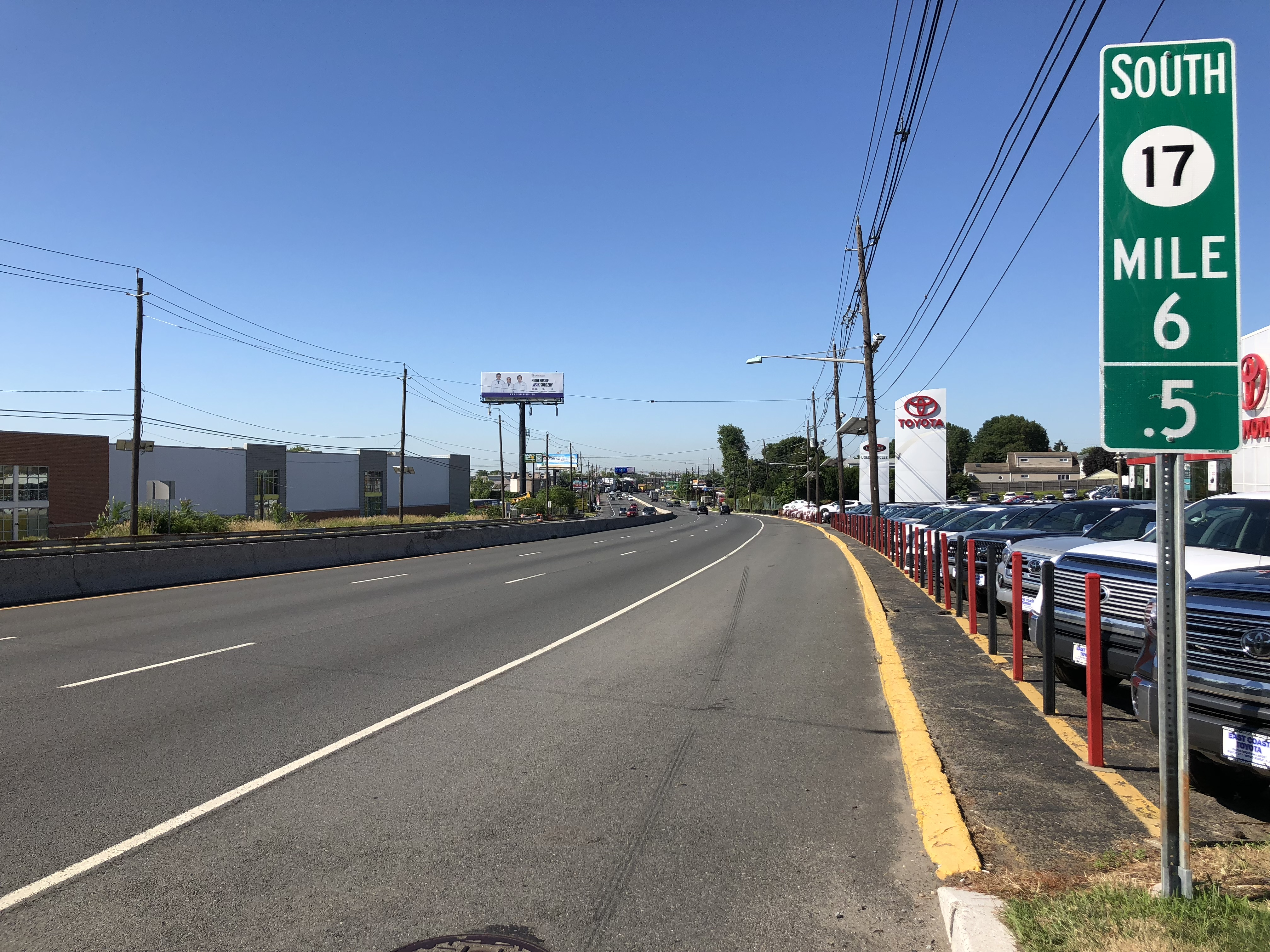 View south along New Jersey State Route 17 between Bergen County Route 36 (Moonachie Avenue) and Passaic Avenue in Wood-Ridge, Bergen County, New Jersey